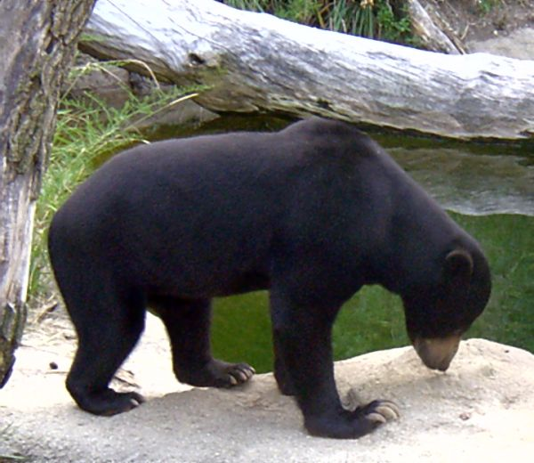 Sun Bear (Ursus malayanus) at the zoo in Chicago..